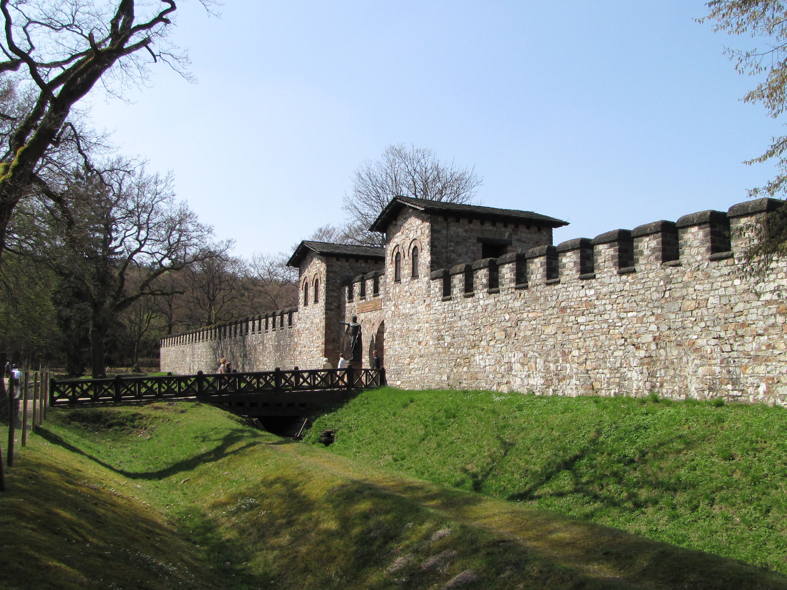 Cohort Fort Saalburg